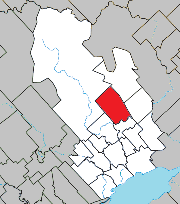 Location of Saint-Élie-de-Caxton, Quebec within Maskinongé Regional County Municipality.